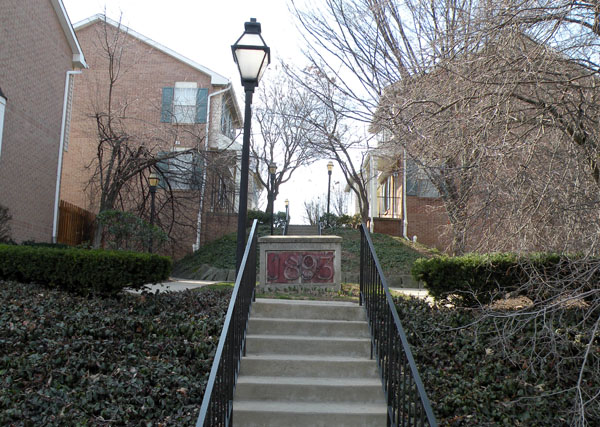 Picture of the former site of Oakland Public School located at Dawson Street near Holmes Place in the South Oakland neighborhood of Pittsburgh, Pennsylvania, on March 20, 2010. The school no longer exists, it was torn down several years ago, and where it once stood is now the Holmes Place Condominiums. On Dawson street, between a couple of condos, there is a sign (pictured) that says, "1893". This may indicate the year in which the former Oakland Public School was built. A woman on the street told me the sign is situated where the front of the building used to be located, and she also said, "Andy Warhol and Dan Marino used to go to school here." According to the information I found online, the building's architect was Ulysses J. Lincoln Peoples, and the architectural style was Romanesque Revival.